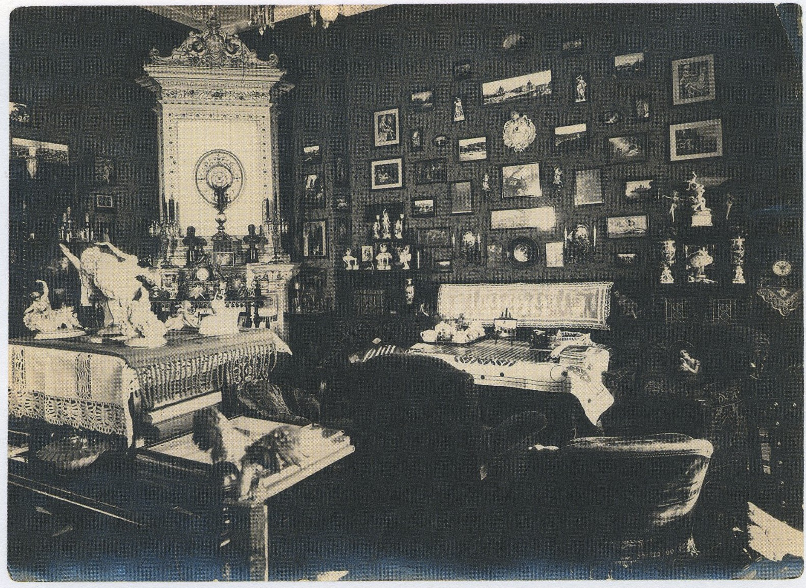 "Bourgeois interior", one of three photos given by Sasha Stone to Walter Benjamin. Approx. 1914.